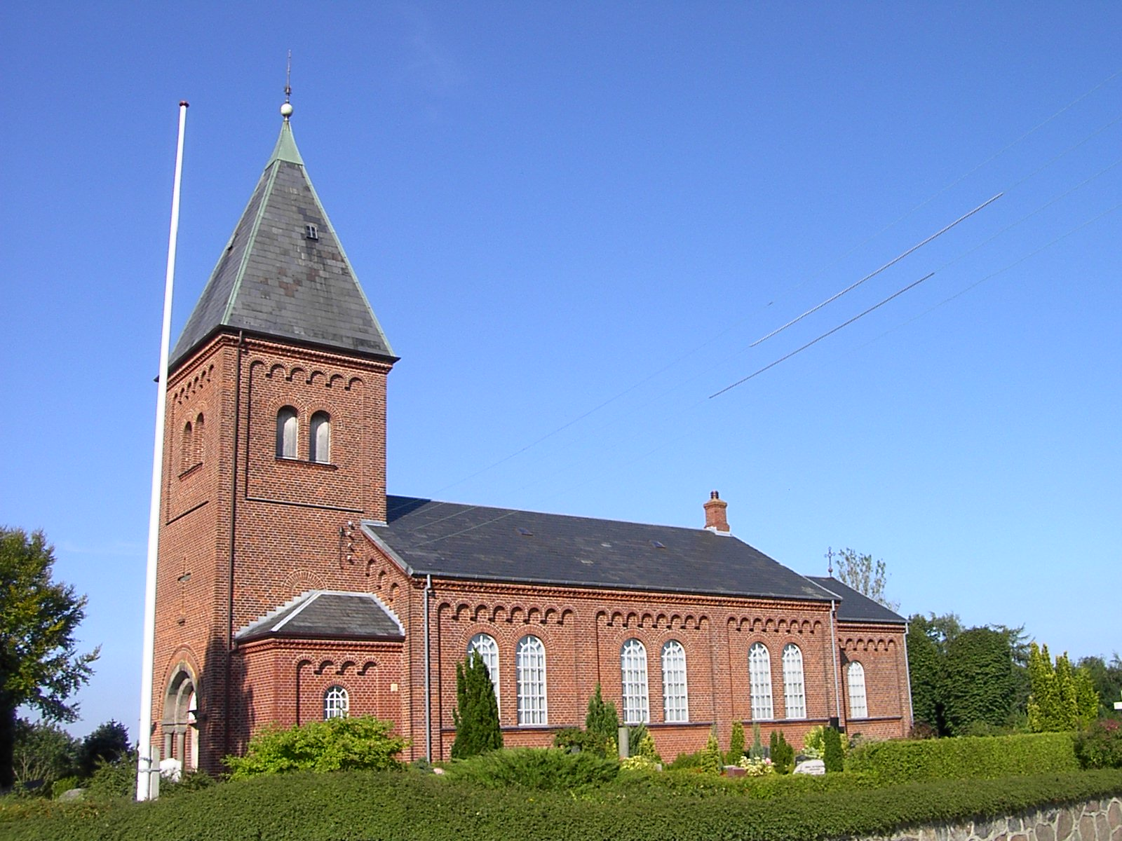 Erritsø Church in the village Erritsø next to Fredericia in Denmark.